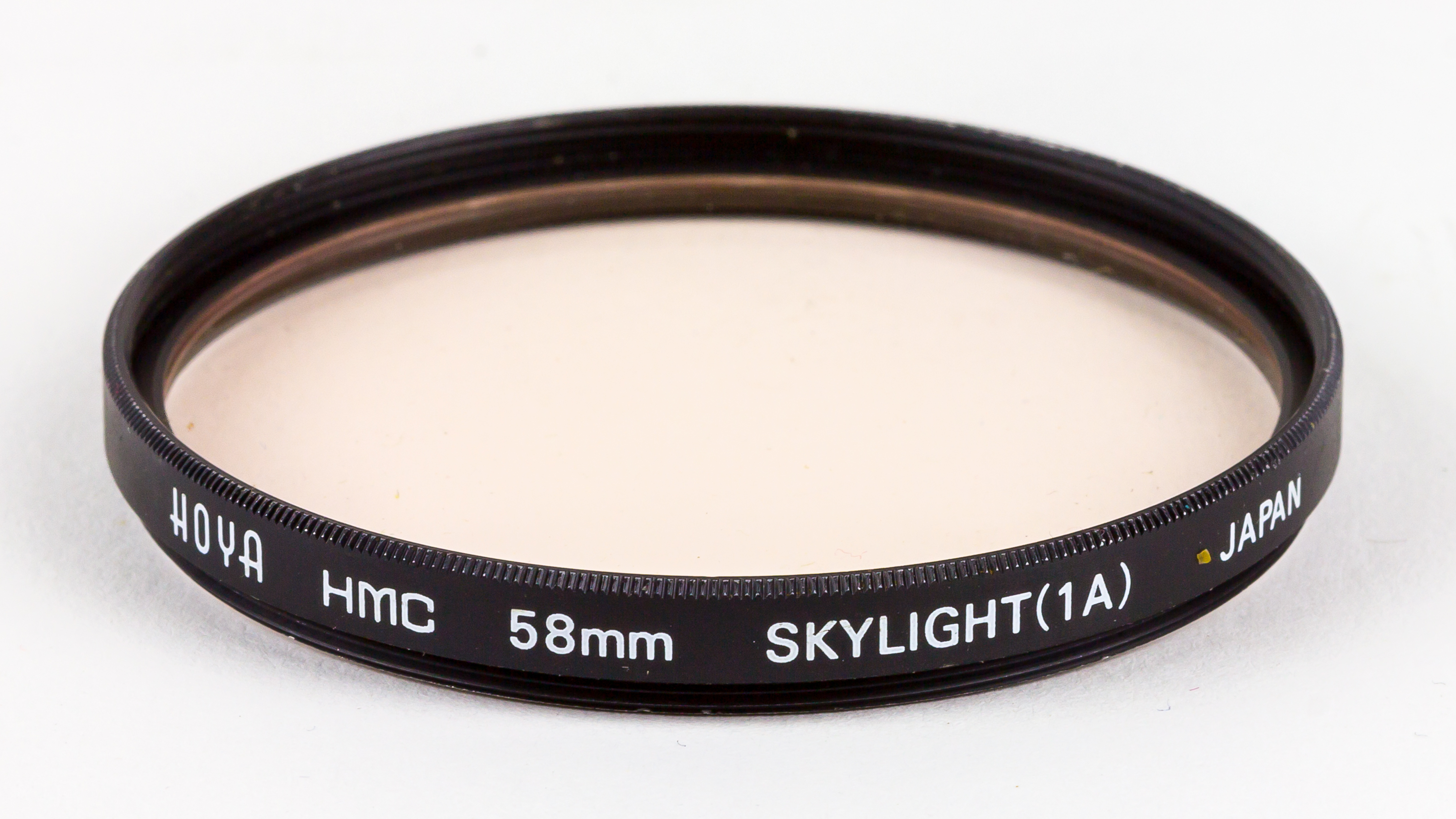 Hoya Skylight filter 1A, 58 mm